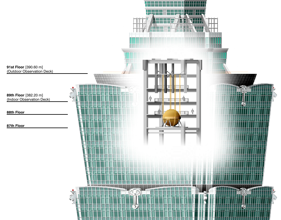 The Tuned Mass Damper in Taipei 101